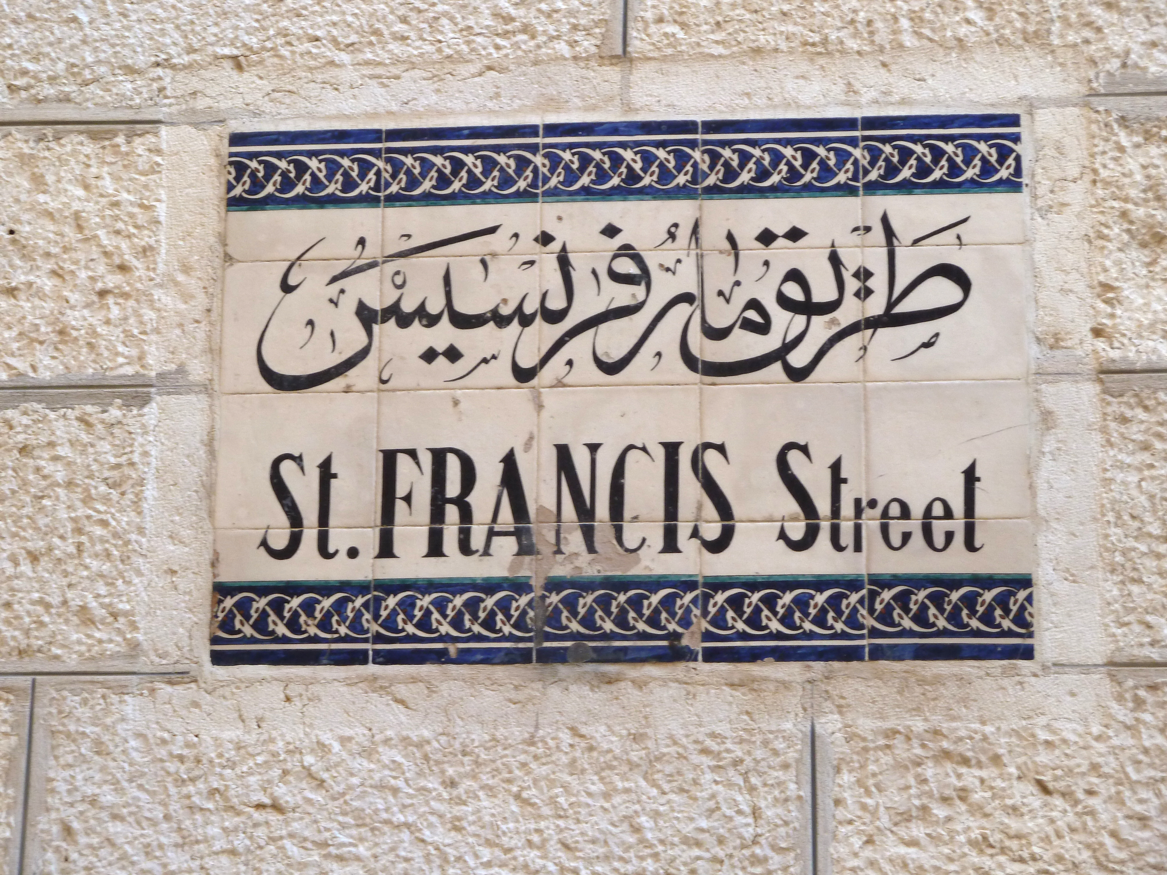 Old Jerusalem St. FRANCIS Street sign named after Francis of Assisi